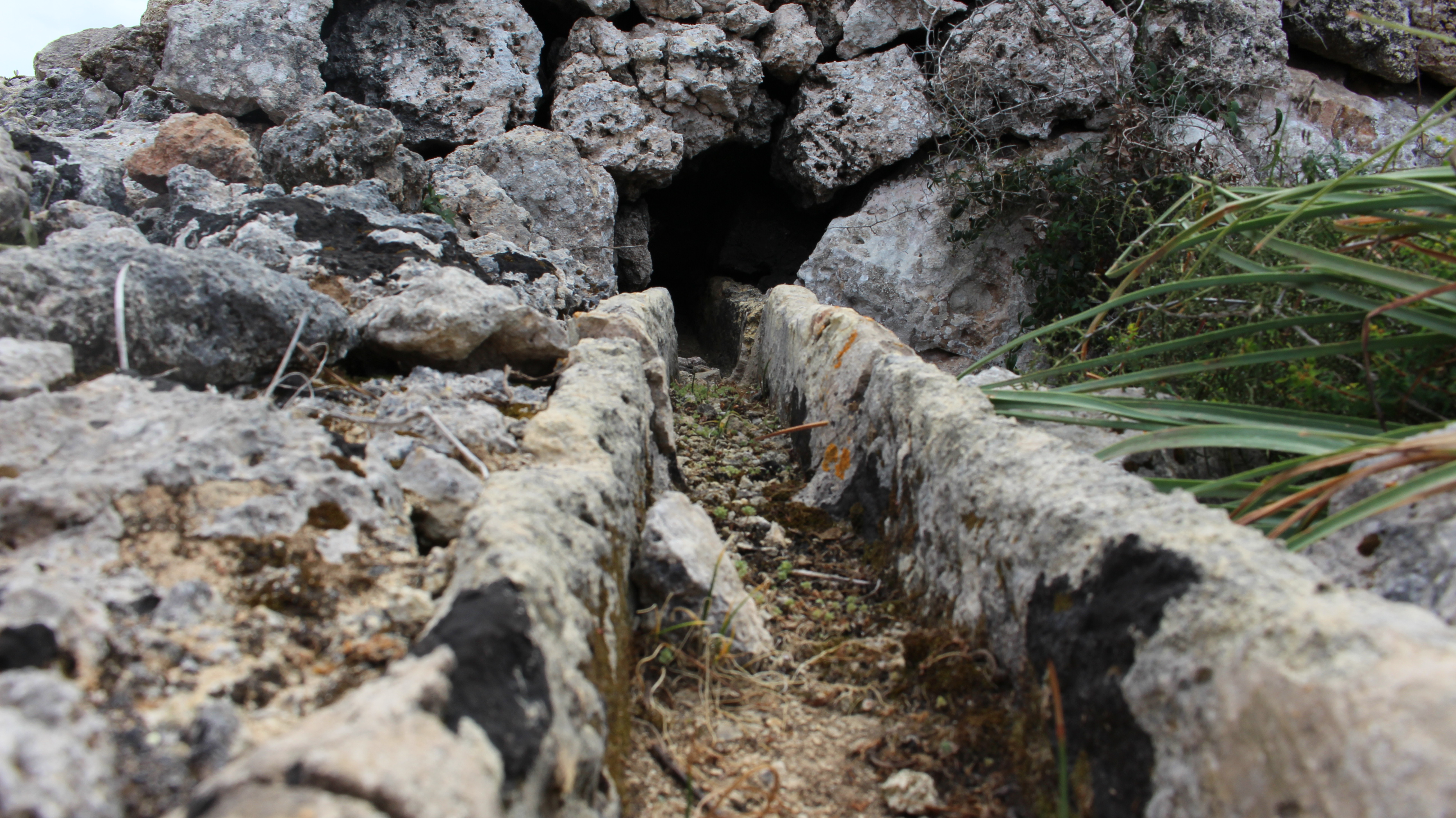 This is a water canal.